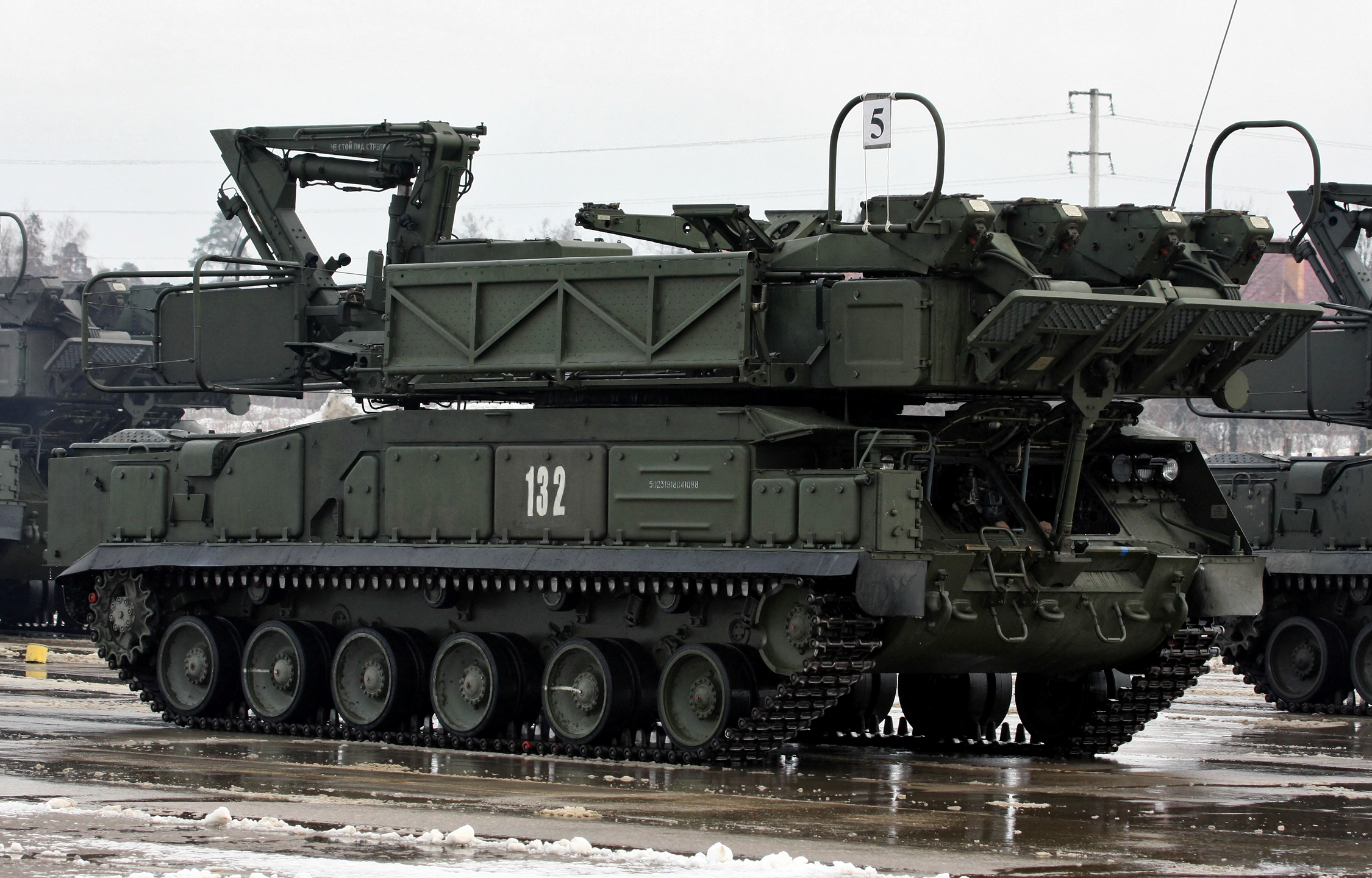 9A316 launch and load vehicle for Buk-M2 air defence system during the rehearsals of 2012 Victory Day Parade.